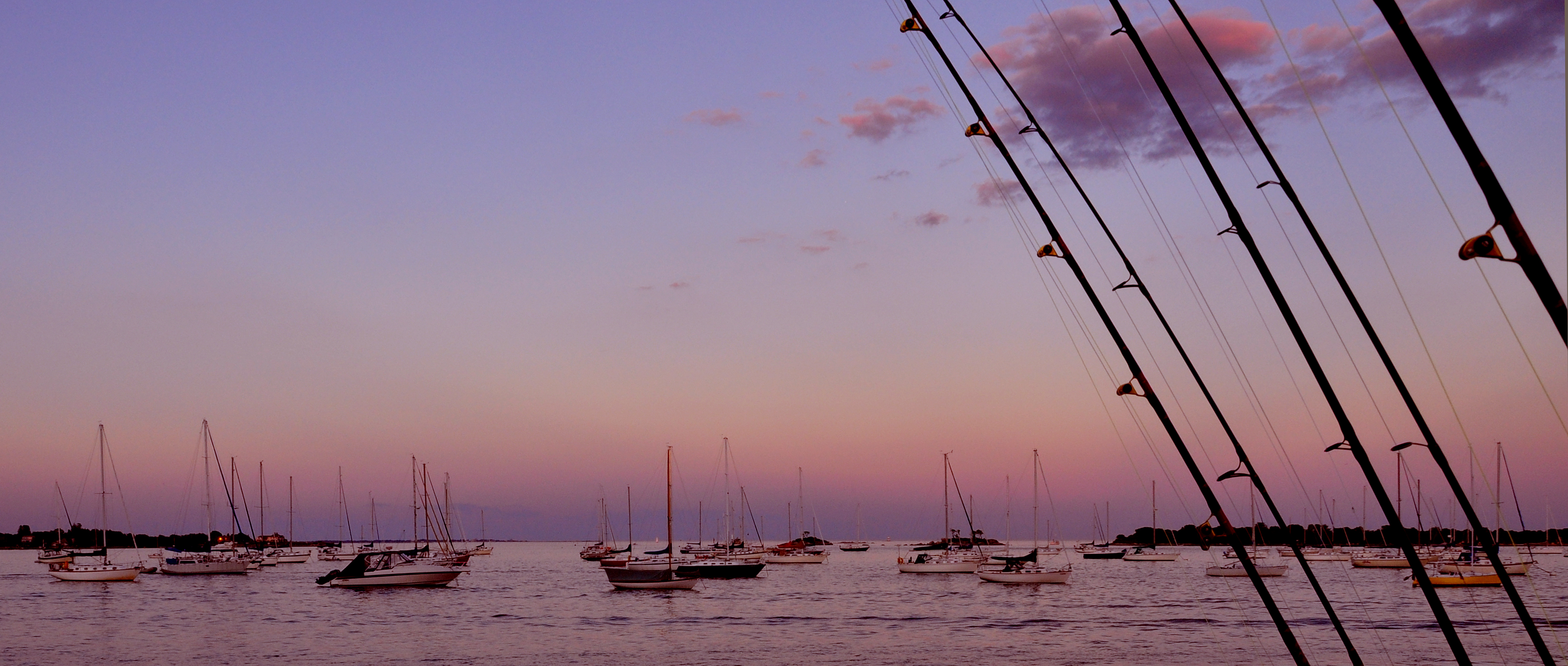 A view of a scenic harbor of Noank town of Connecticut. This shot was taken on a summer evening of July while eating delicious lobster @ famous Abbott's Lobster restaurant.